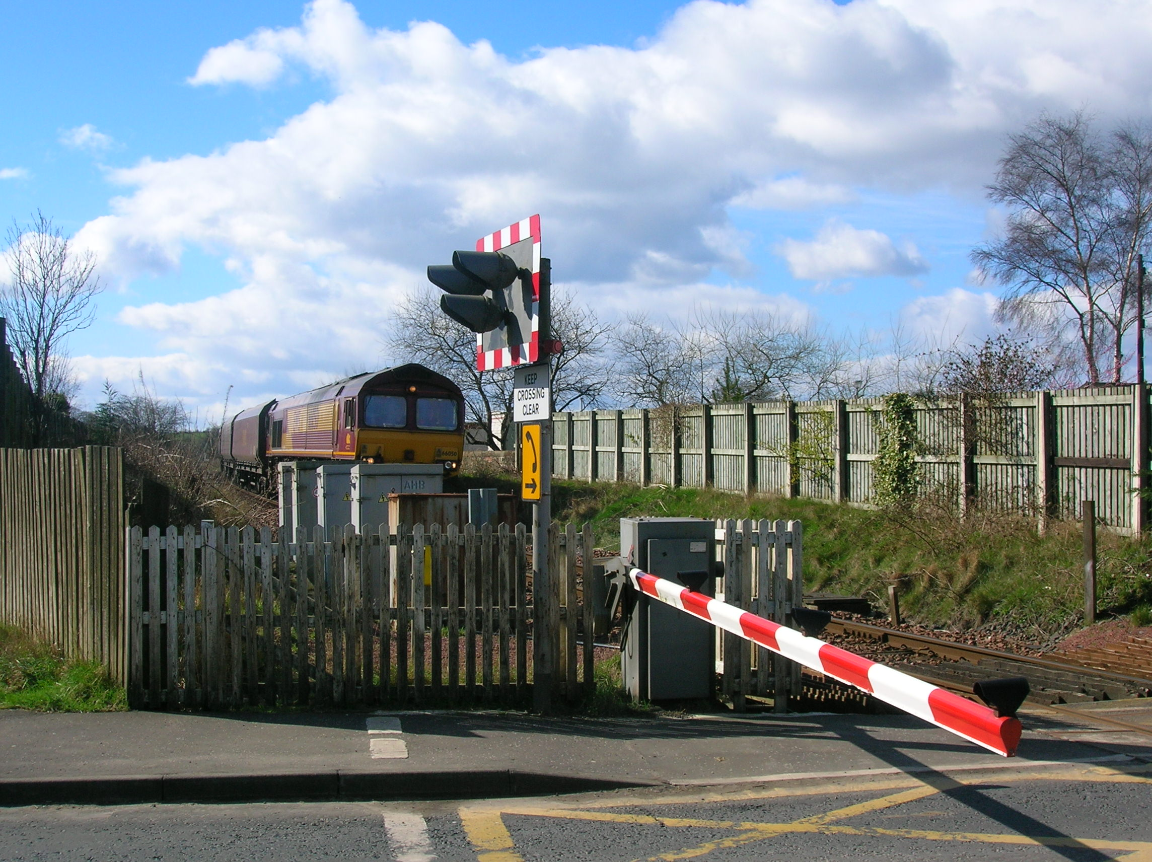 20-03-2007 - A coal train running through Gatehead, passed the old station and its level crossing. East Ayrshire, Scotland.